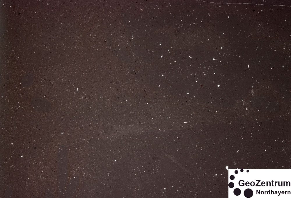 Mudstone (Dunham-classification). Width of Picture is 32mm. Picture by courtesy of Axel Munnecke, Geozentrum Nordbayern